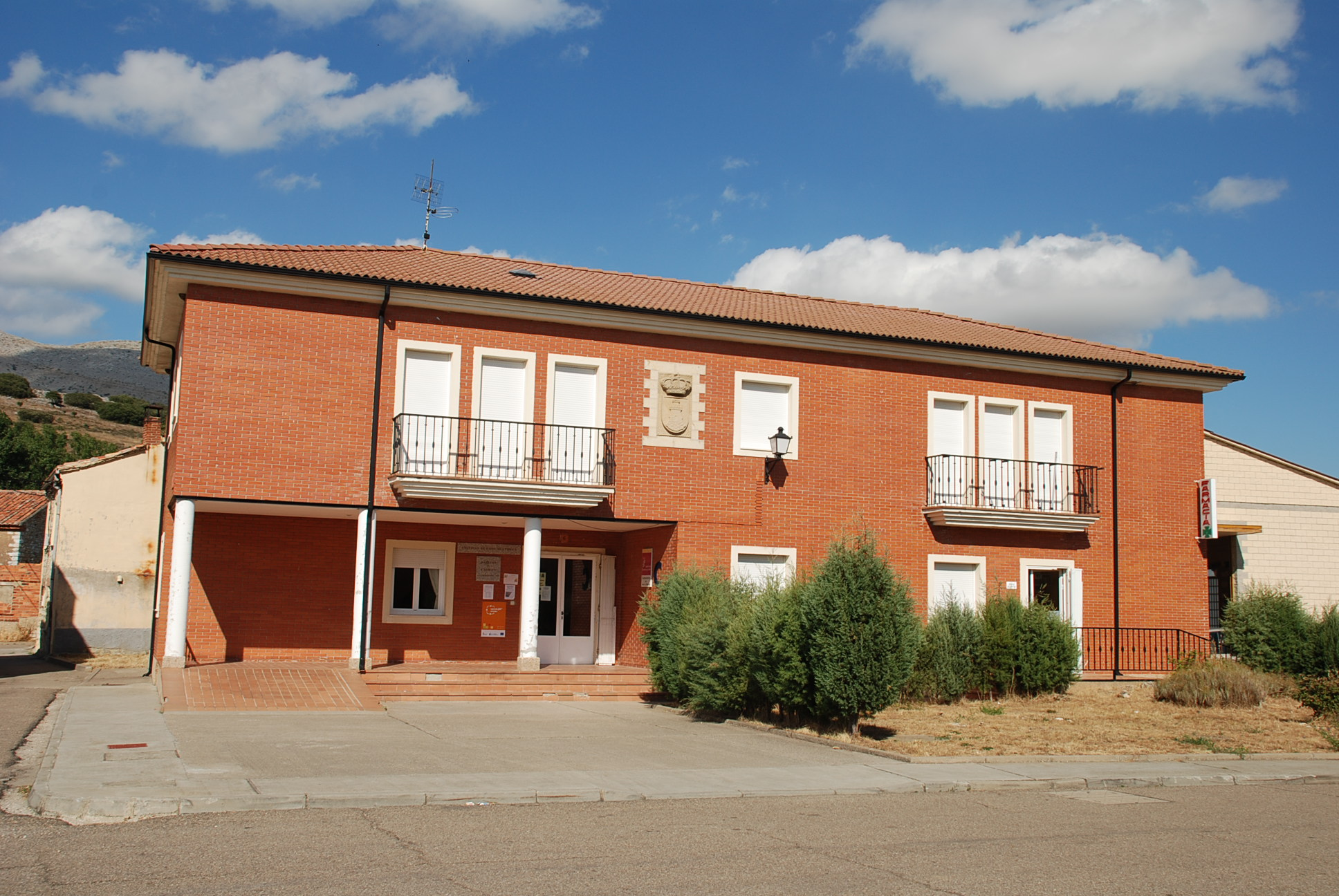 Town hall of Castrejón de la Peña (Palencia, Castile and León).